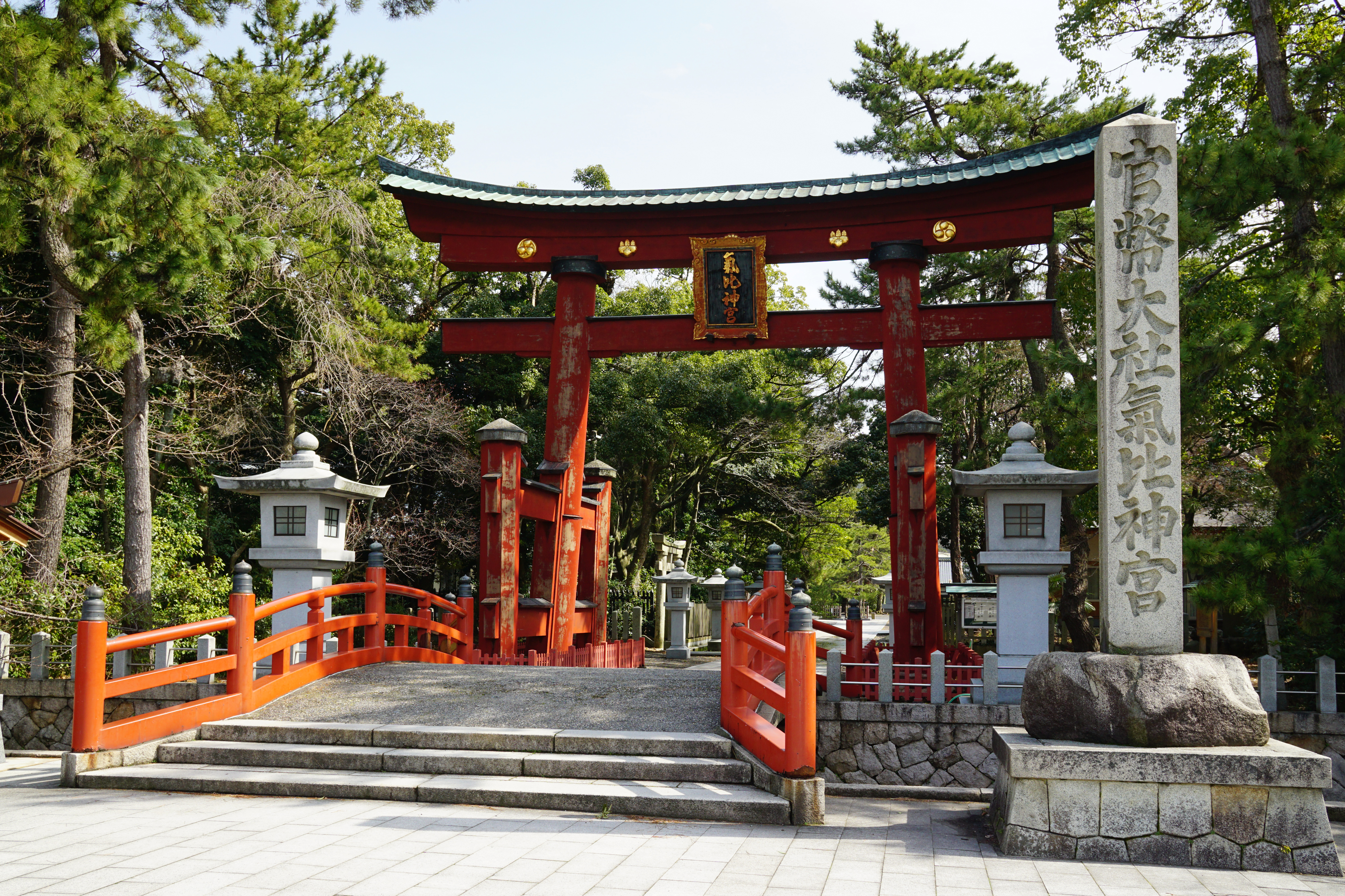 Kehi-jingu in Tsuruga, Fukui prefecture, Japan.